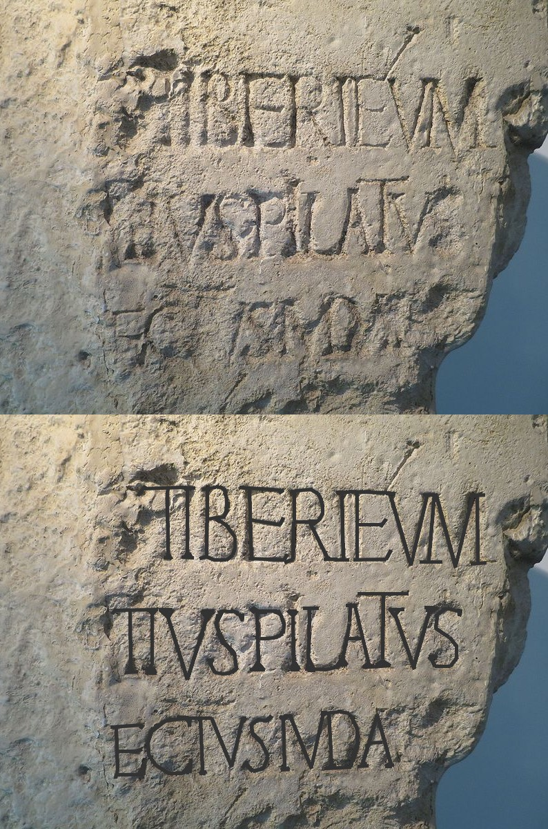 Copy of the Pilate Stone from Caesarea Maritima in the Civico museo archeologico di Milano (Compared-transcripted)